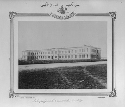 Al - Mamoon high school in Aleppo - Syria , constructed under Ottoman rule by Mohamed Hassan Pasha in 1892